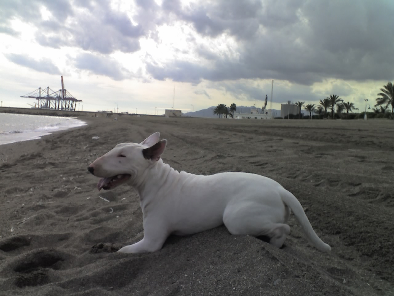 White Bull Terrier enjoying a day at the beach.